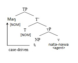 A syntactic tree illustrating feature checking for case. All NPs must get case. Case is assigned by T while the theta role of agent is assigned by V. This tree illustrates case driven movement of the NP to spec, TP. See also: File:Sinhalese Volitional Setence with Nominative Case.jpg